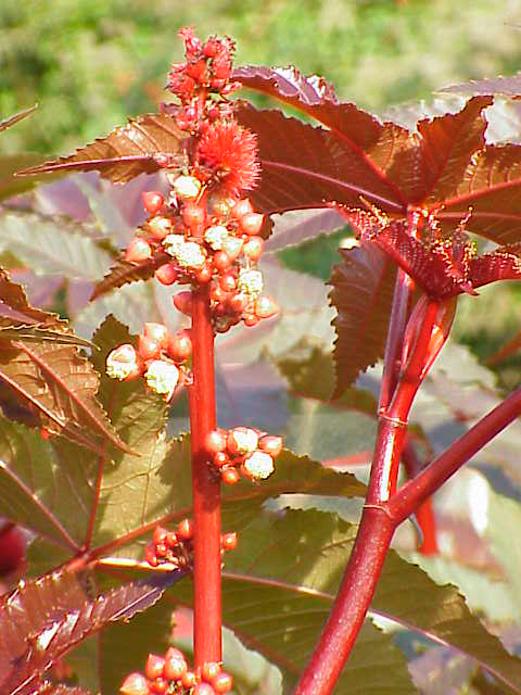 Name Ricinus communis Family Image no. 3 Permission granted to use under GFDL by Kurt Stueber